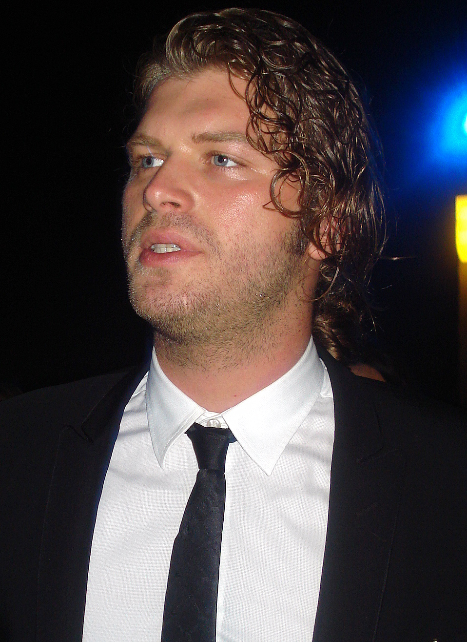 Turkish Actor Kıvanç Tatlıtuğ at the Tribeca Film Festival 2009.